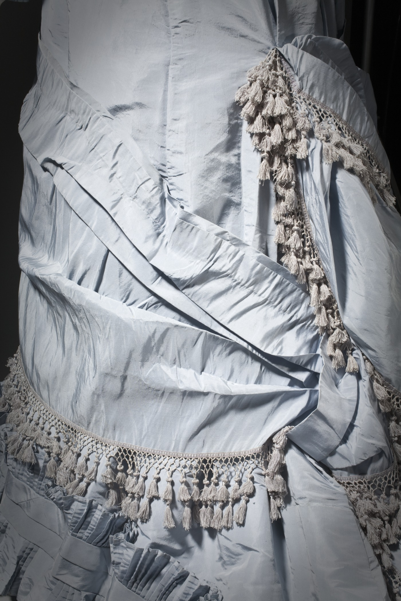 France, Limoges, circa 1880 Costumes; principal attire (entire body) Silk plain weave (taffeta) with silk ribbon and silk-knotted trim Center back length: 75 in. (190.5 cm) Purchased with funds provided by Suzanne A. Saperstein and Michael and Ellen Michelson, with additional funding from the Costume Council, the Edgerton Foundation, Gail and Gerald Oppenheimer, Maureen H. Shapiro, Grace Tsao, and Lenore and Richard Wayne (M.2007.211.35) Costume and Textiles